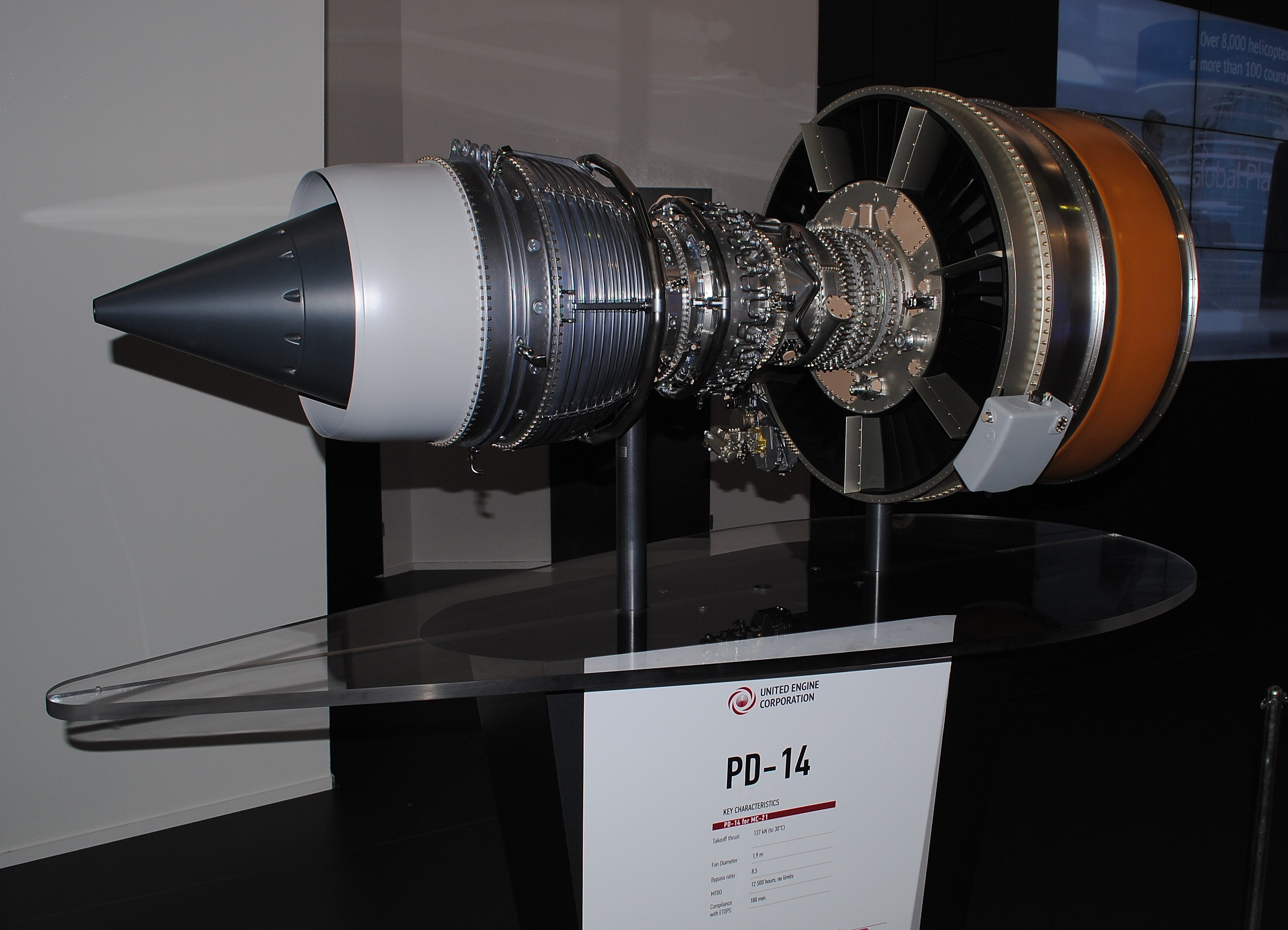 Engine model PD-14 (Air Show Le Bourget 2013)